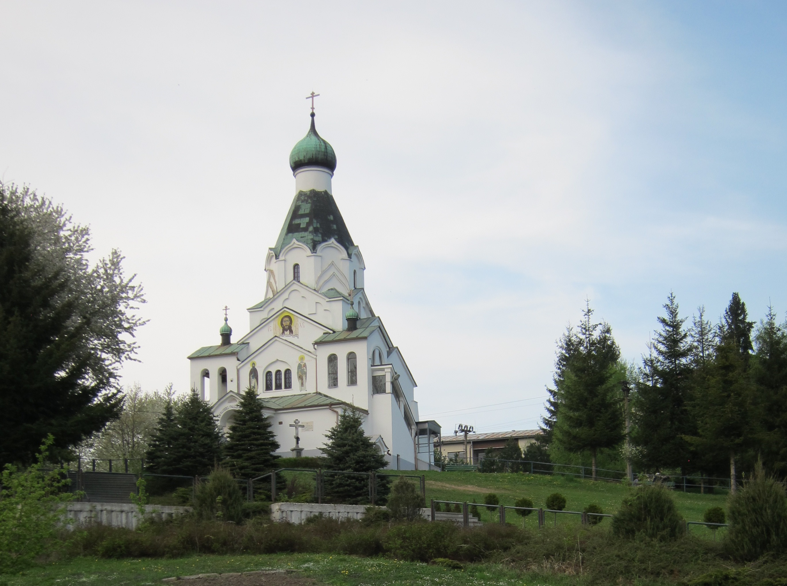 Church of Holy Spirit in Medzilaborce in Slovakia